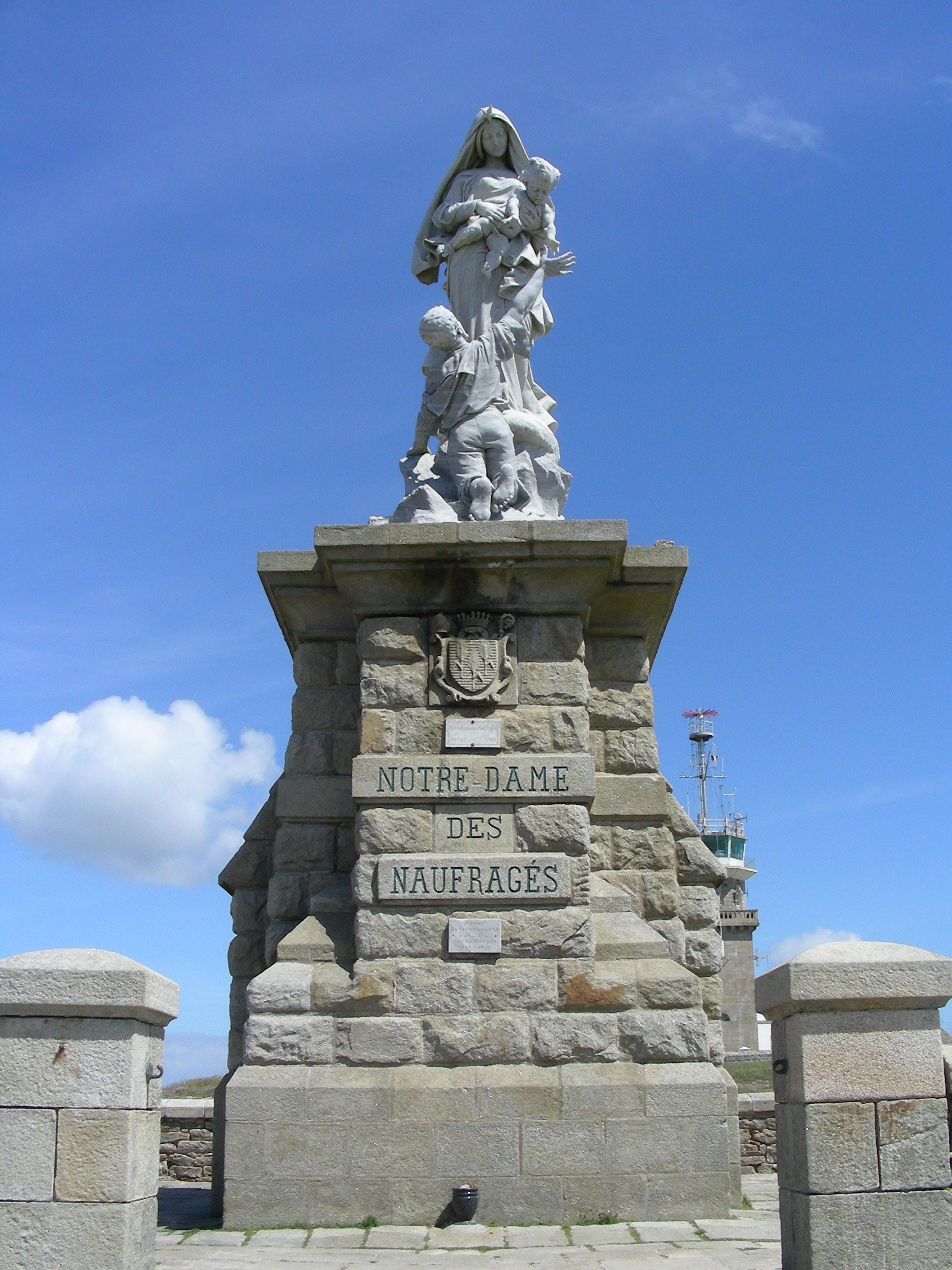 Statue of Notre dame for the victims of Shipwreck, on the Pointe du Raz, Britanny, France